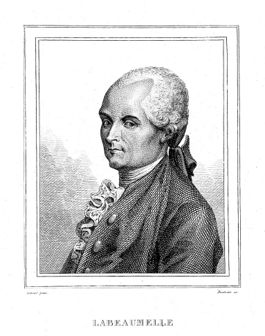 Portrait of Laurent Angliviel de La Beaumelle (1727-1773), French writer